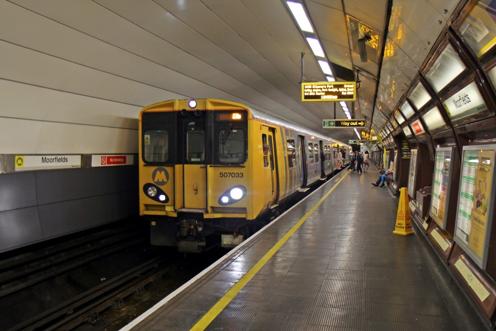 Merseyrail Class 507, 507033, Moorfields railway station